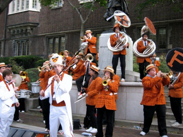 The Princeton University Band performs at UPenn's campus after a football game.